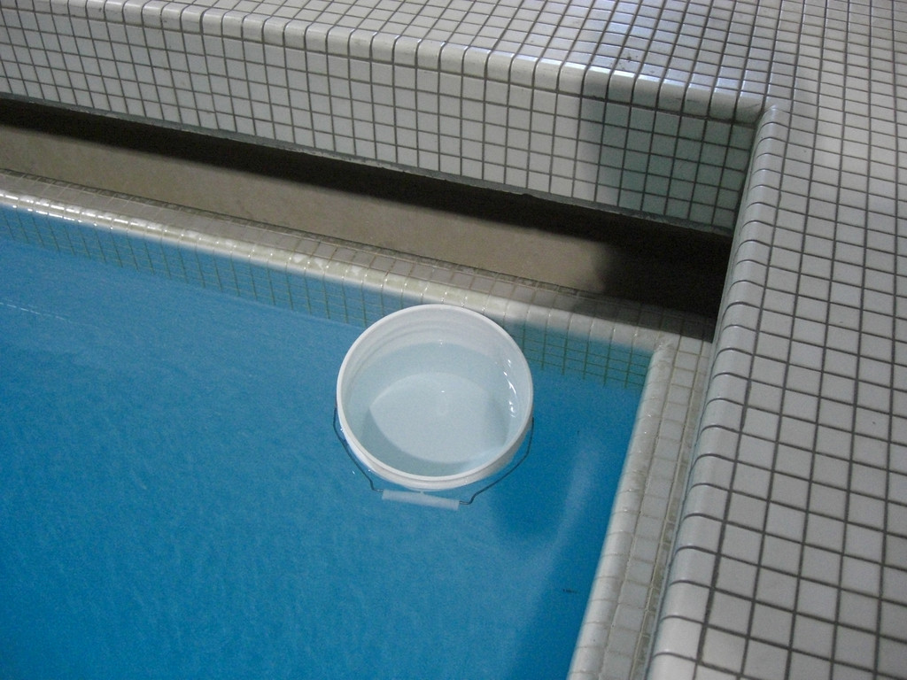 Water in an indoor swimming pool appears blue against a white background, right up to the waterline. The same water inside a floating white bucket appears only slightly blue.